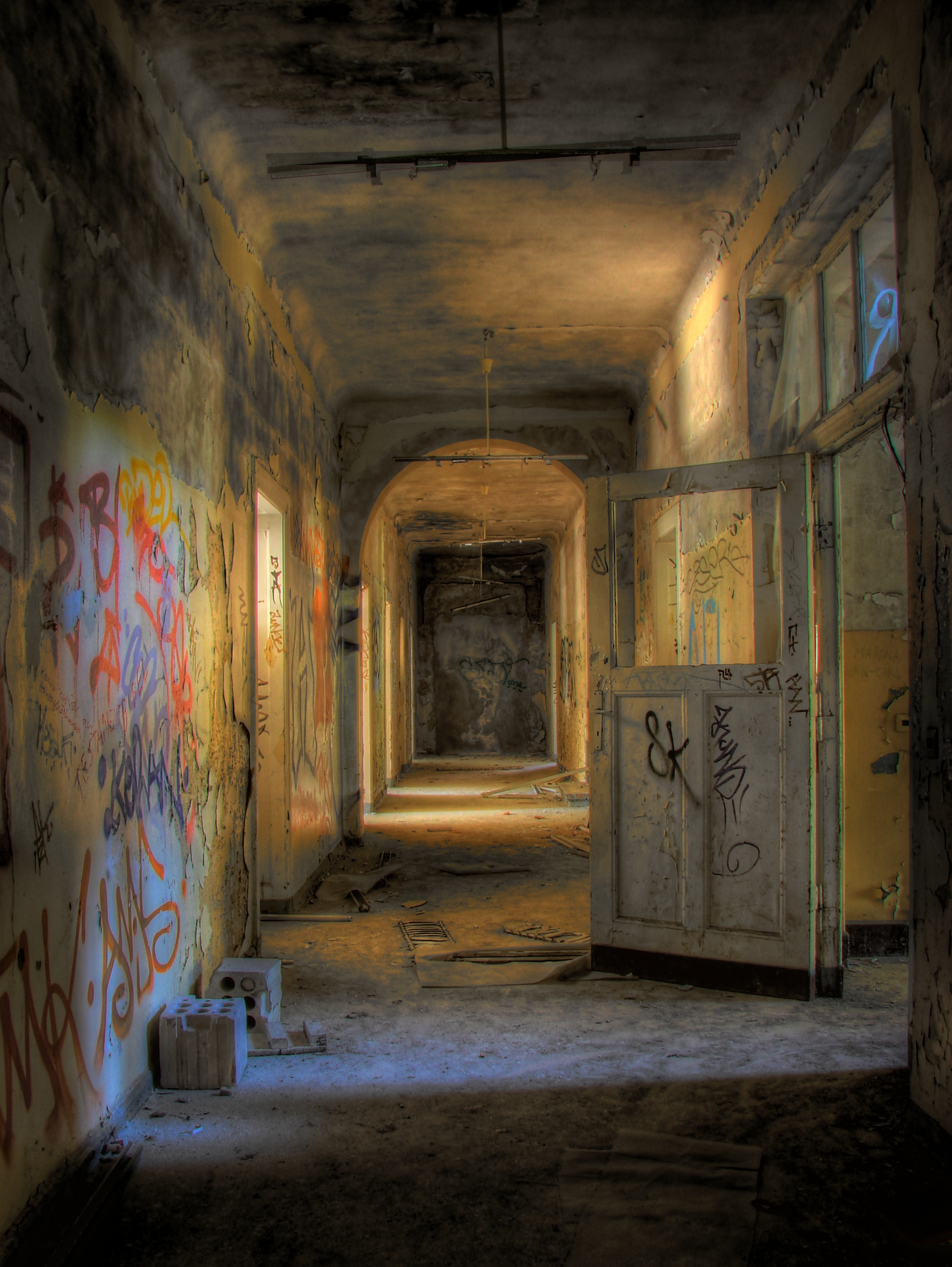 typical Urban Exploration HDRi (high dynamic range image); made out of 4 exposures, afterwards tonemapped; hallway of an abandoned hospital in former East-Berlin